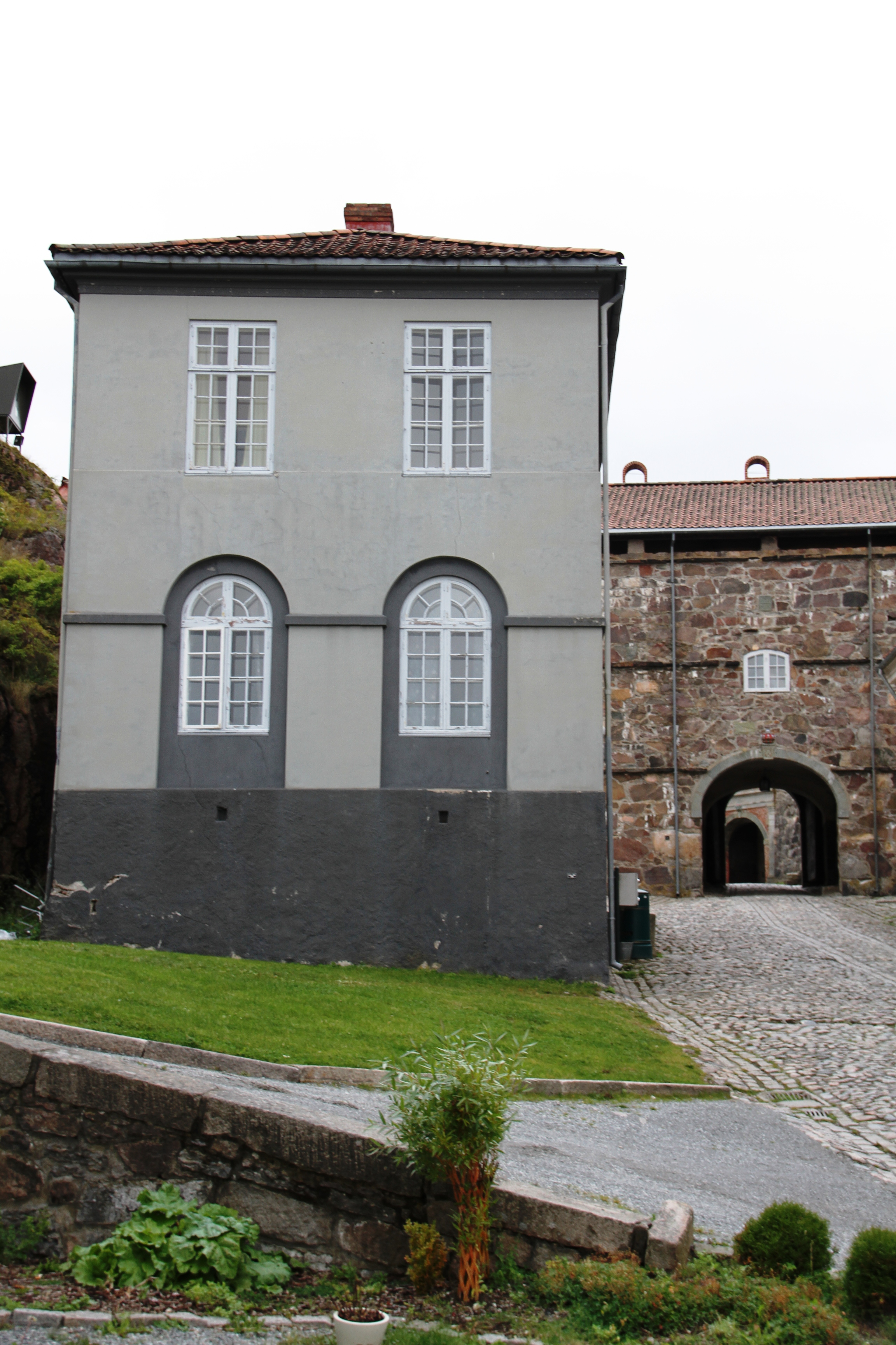 Hovedvakten, The new Corps de garde - building at Fredriksten fortress in Halden, Norway, from 1833. Architect Balthazar Nicolai Garben.